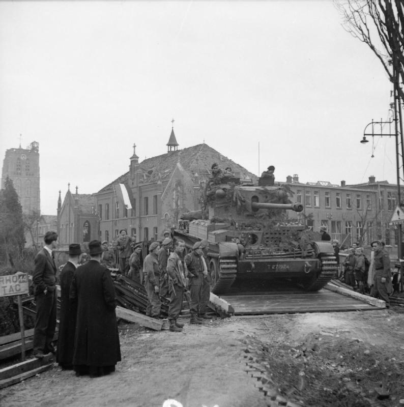 The British Army in North-west Europe 1944-45 A Challenger tank crosses a Bailey bridge near Esch, 27 October 1944.